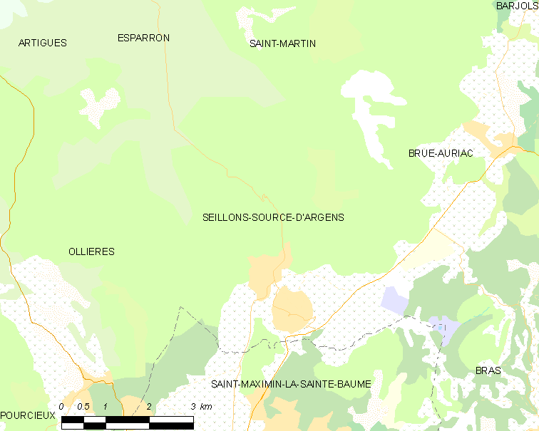 Map of French municipality Seillons-Source-d'Argens